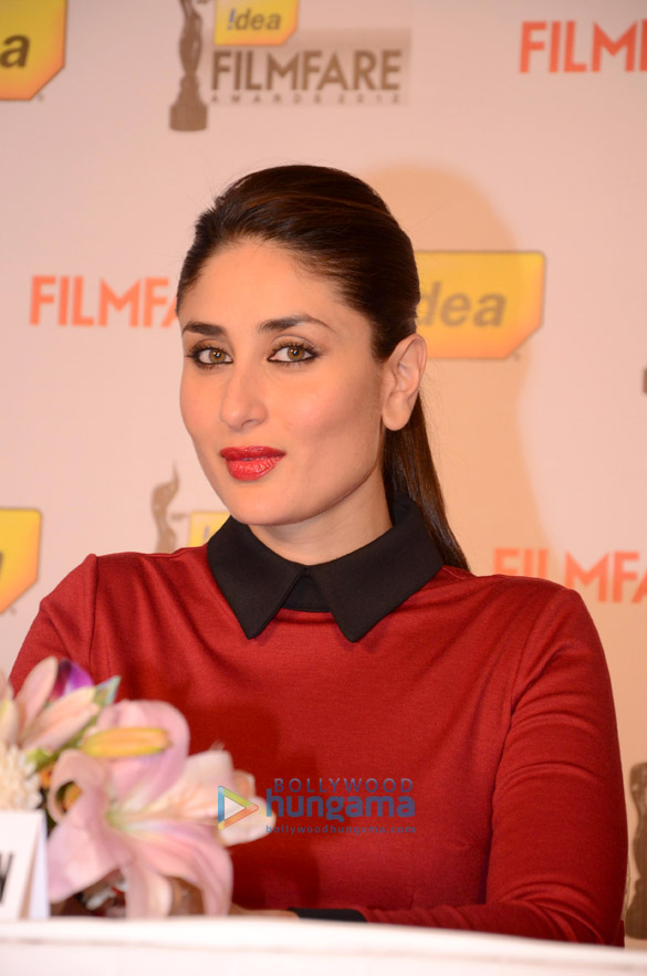 Kareena Kapoor at the 58th Filmfare Award Press Conference in Delhi